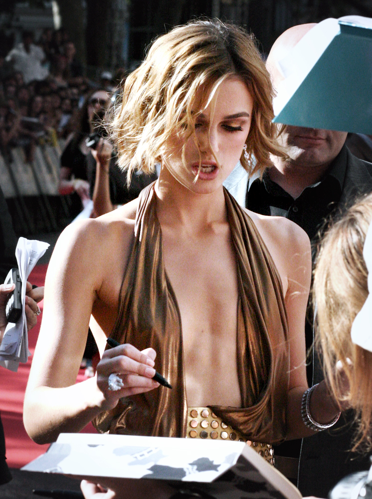 Keira Knightley at the Pirates of the Caribbean: Dead Man's Chest London premiere